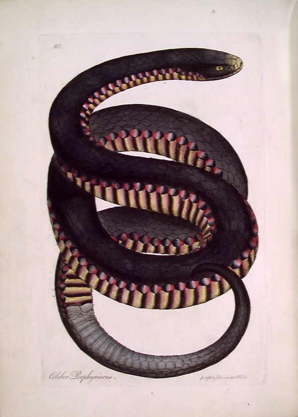 This is an image of a print of a hand coloured engraving by James Sowerby (1757-1822). It describes a snake of Australia, Pseudechis porphyriacus, given in the title as “Coluber Porphyriacus”, and appearing in Zoology and botany of New Holland and the isles adjacent